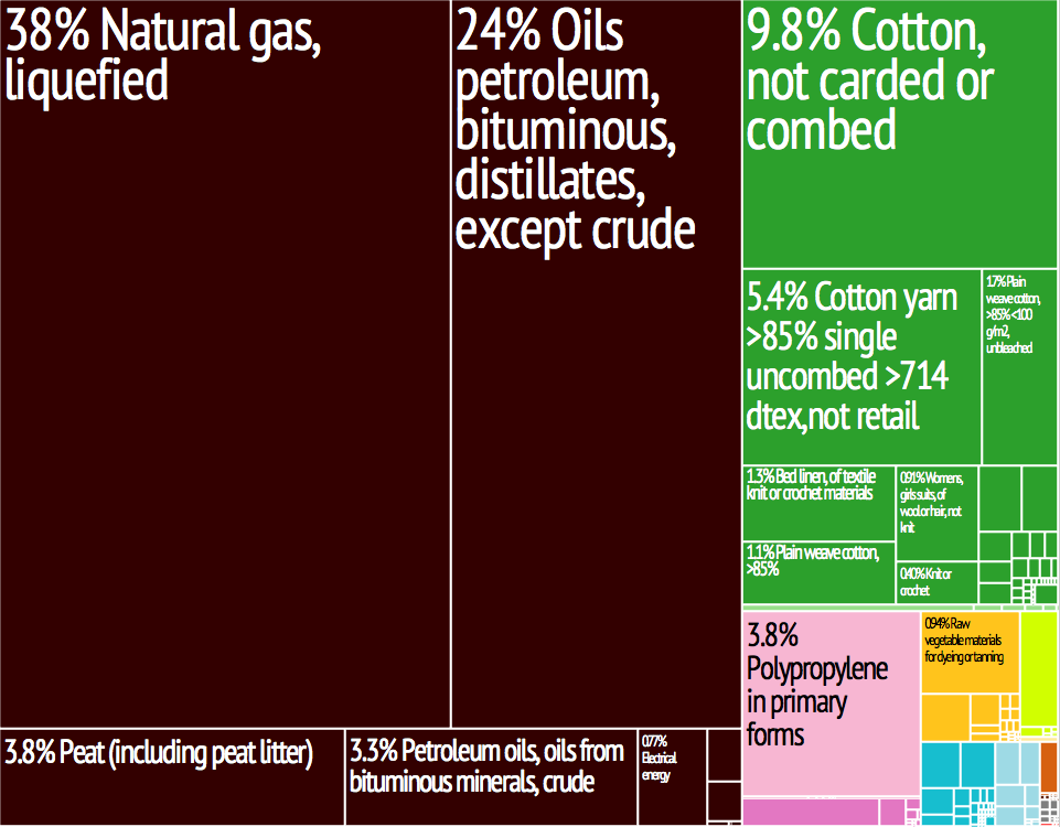 Turkmenistan Export Treemap from MIT Harvard Economic Complexity Observatory